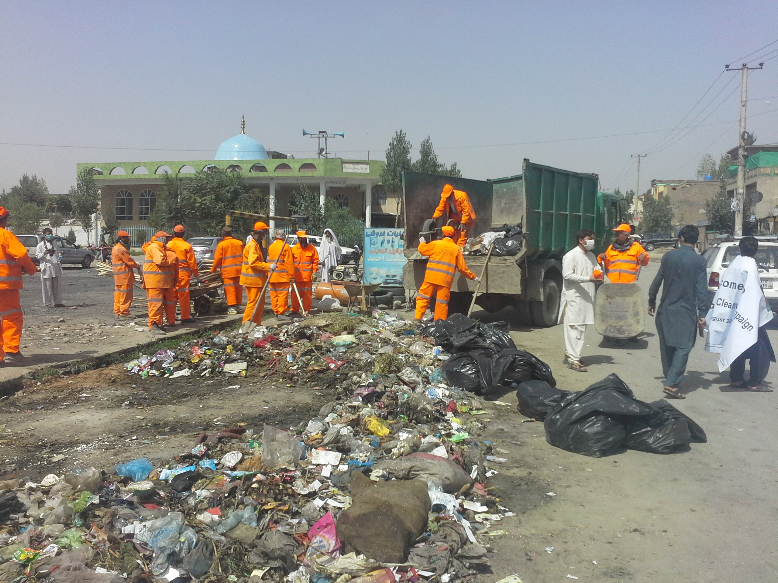 Let's Do It! Afghanistan cleanup was held in 8-9 August 2015 in 10 provinces (Kabul, Kapisa, Parwan, Panjsher, Kunduz, Takhar, Ningarhar, Laghaman, Kunar and Logar Provinces).